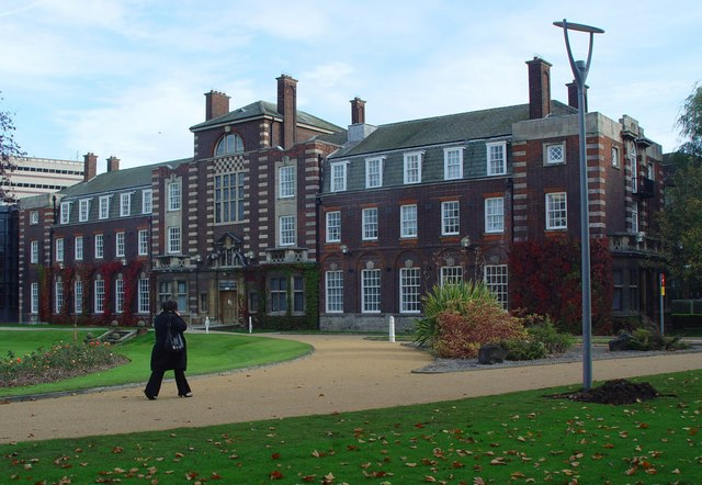 University of Hull - Wharfe Building Part of the new medical school.